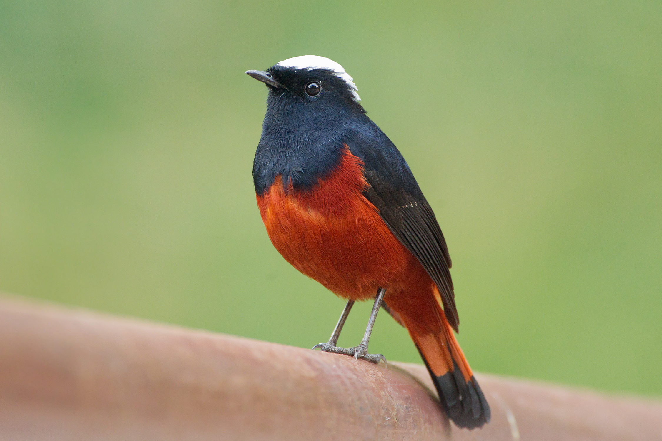 White-capped Water Redstart (Chaimarrornis leucocephalus), Doi Inthanon National Park, Chiang Mai, Thailand